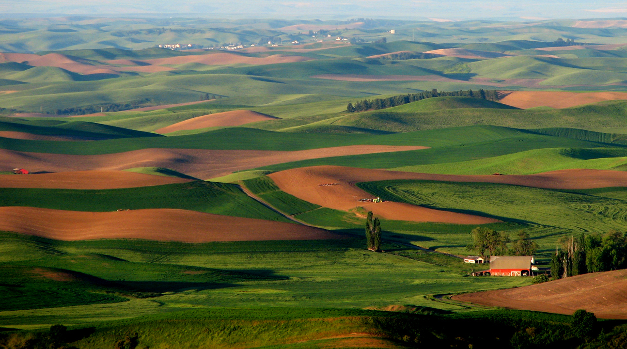 Palouse Hills from Steptoe Butte – We drove up to the top of Steptoe Butte at 5 in the morning to catch the light and shadow play on the hills.